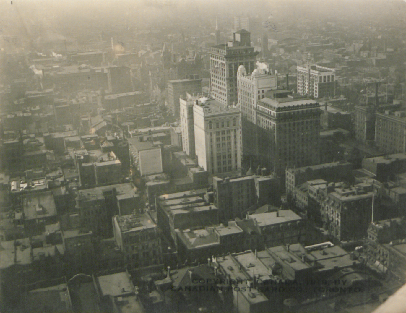 Original caption: “Business Section of Toronto from an Aeroplane.”